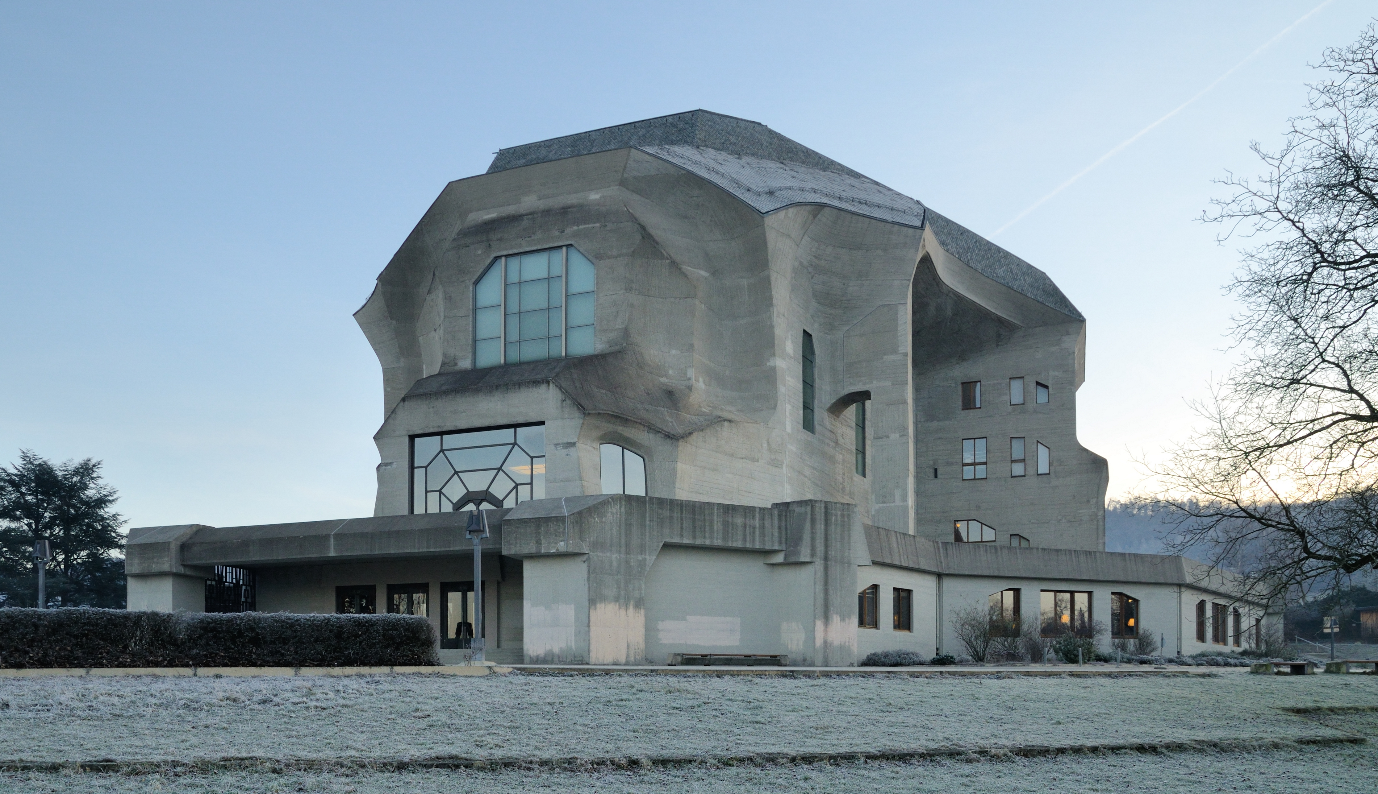 Goetheanum from southwest